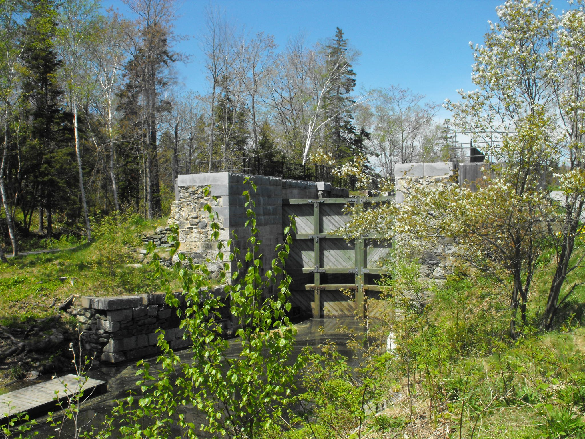 Restored lock in the Shubenacadie Canal system, Dartmouth, Nova Scotia, Canada